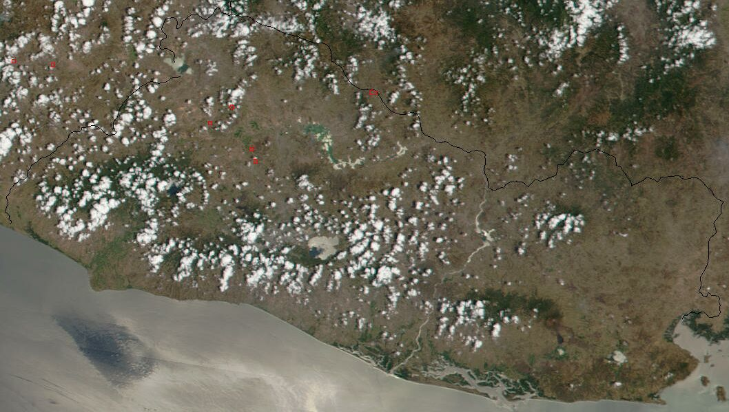 Satellite image of El Salvador in April 2002.